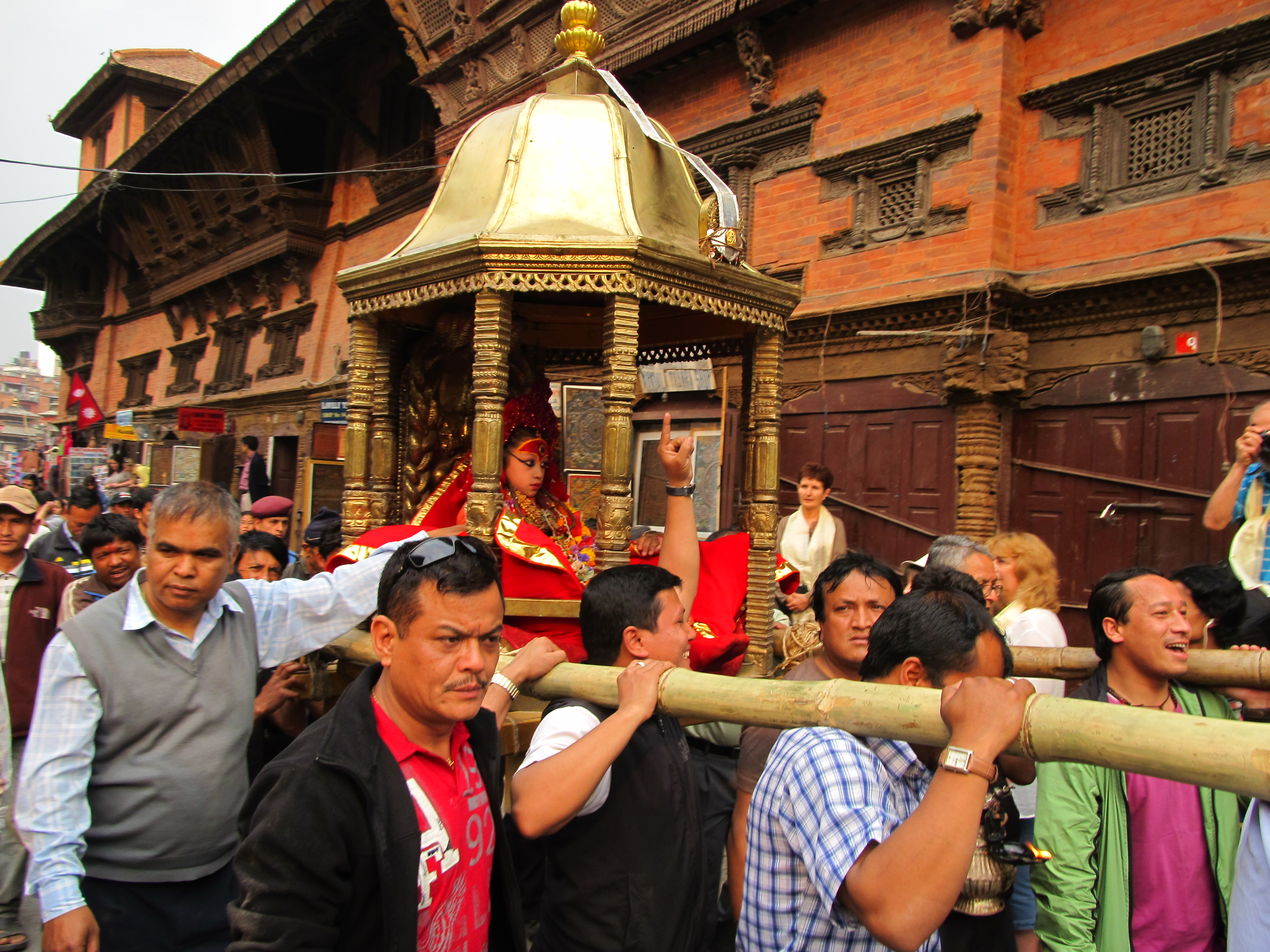 The living goddess Kumari returning to Kumari Ghar (her house) after observing a Seto Machhindranath parade